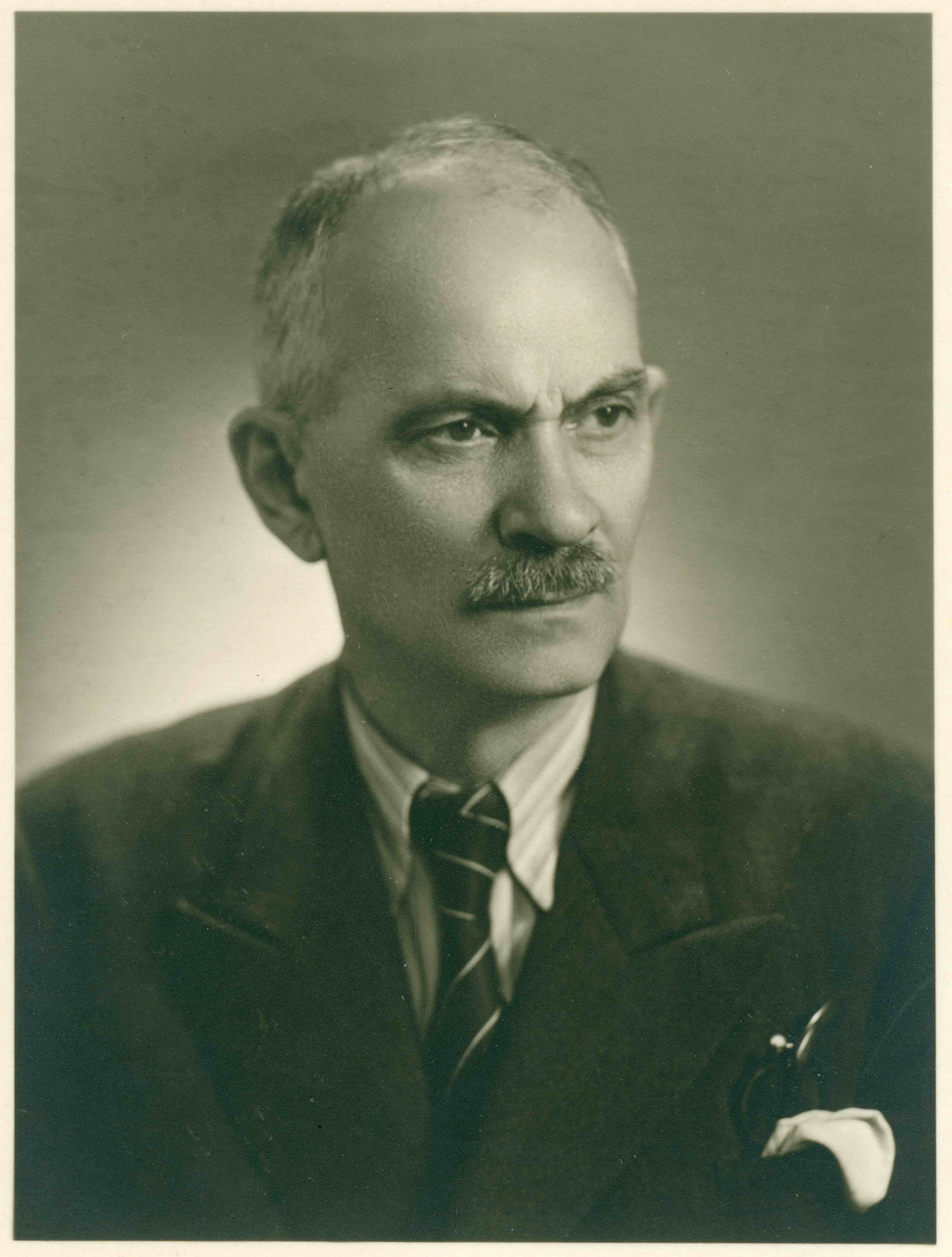 Bozhidar Zdravkov